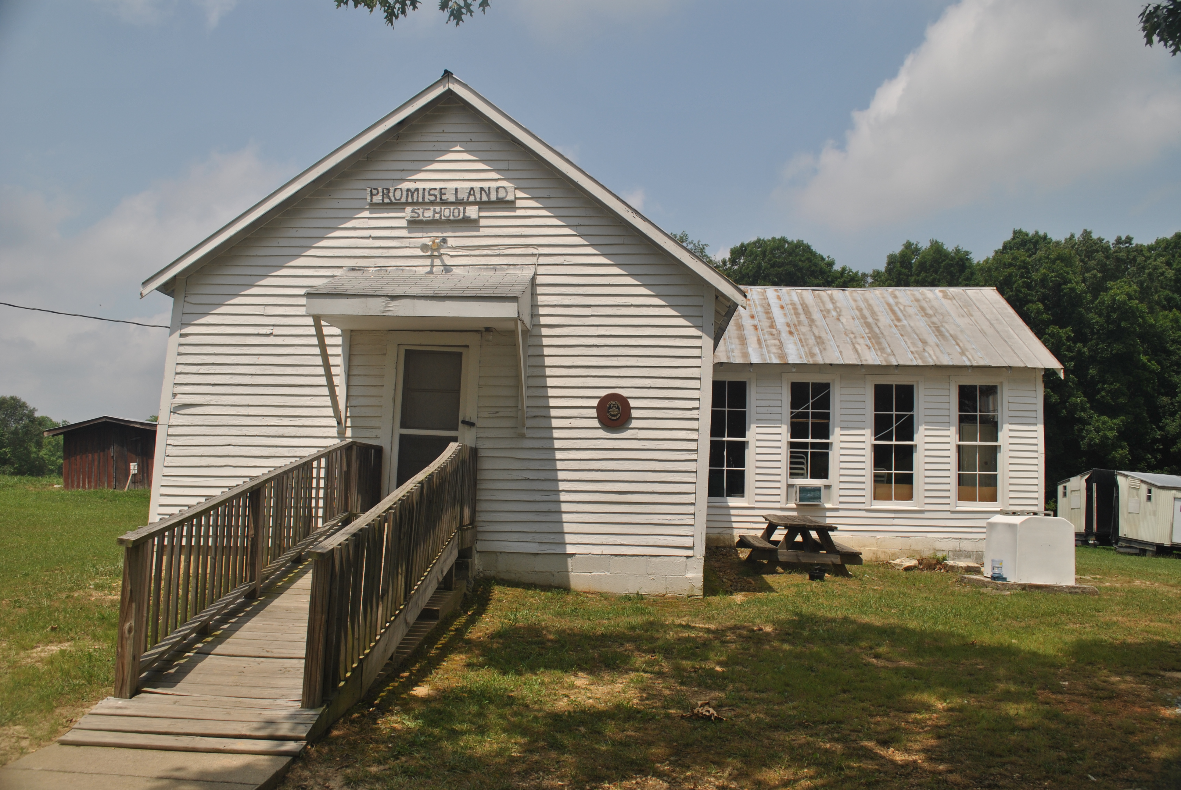 Promise Land School, Promise Land Rd., north of Reddon Crossing/Will G Rd. Promise